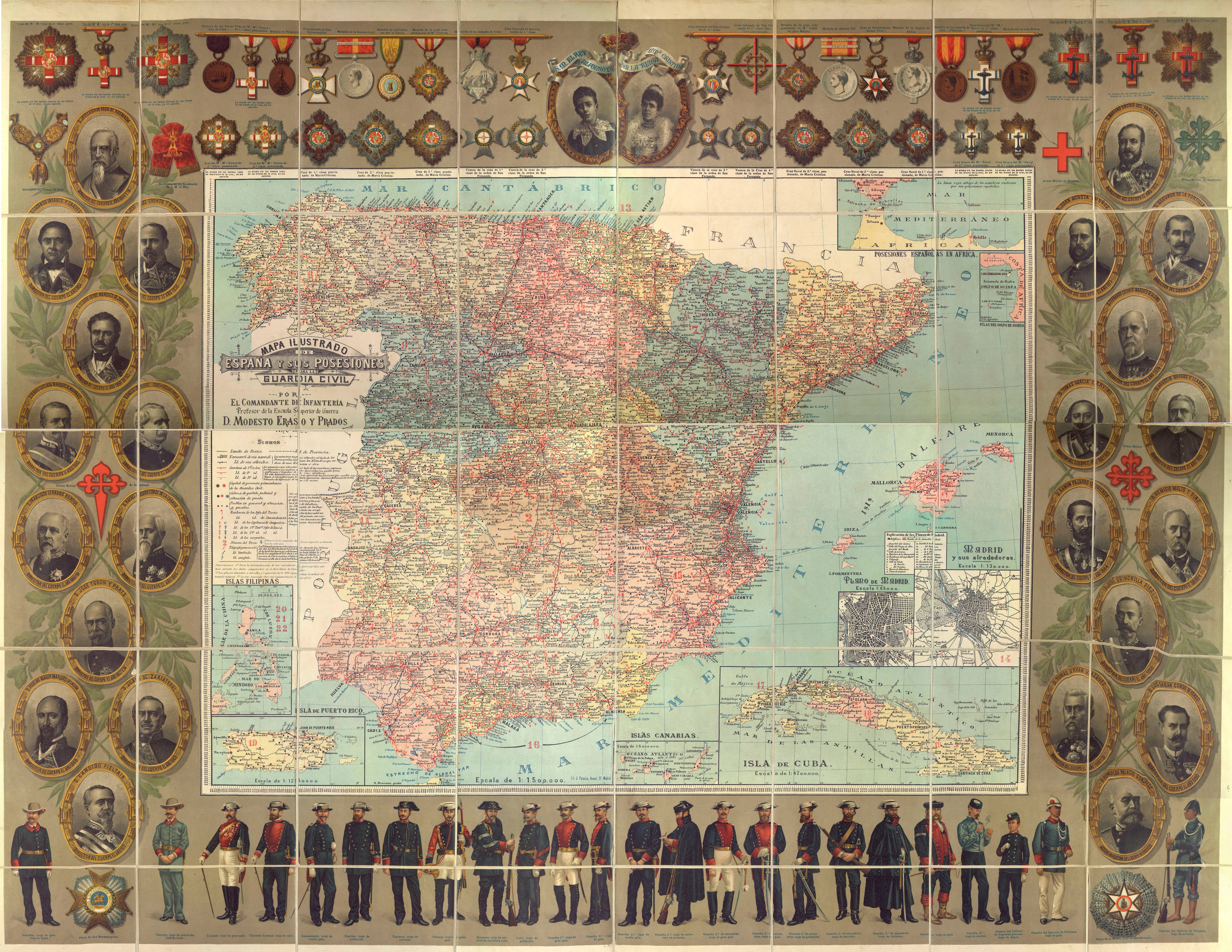 Illustrated map of the Kingdom of Spain and its remaining colonial posessions (Spanish Guinea, Spanish Sahara and Spanish Morocco not included) in 1895, prior to the Spanish-American War. This map was produced for the Guardia Civil (Gendarmerie of Spain) and so includes the portraits of the directors of the Guardia Civil. It also includes the different decorations available at the time.